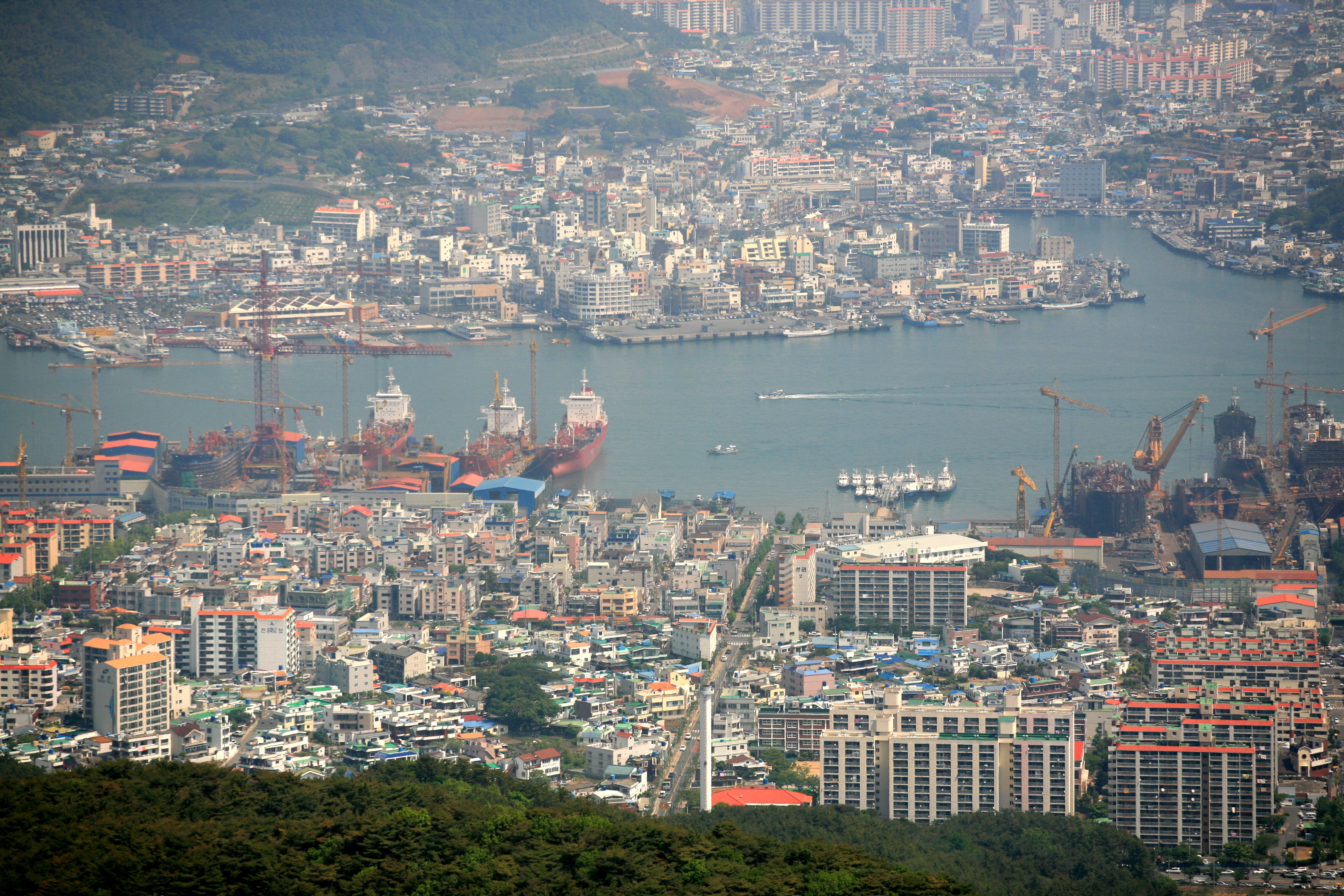 Cityscape of Tongyeong, South Gyeongsang province, South Korea from Hallyeo Waterway Observation dock.